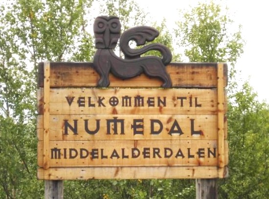 Sign of Numedal between Geilo und Dagali